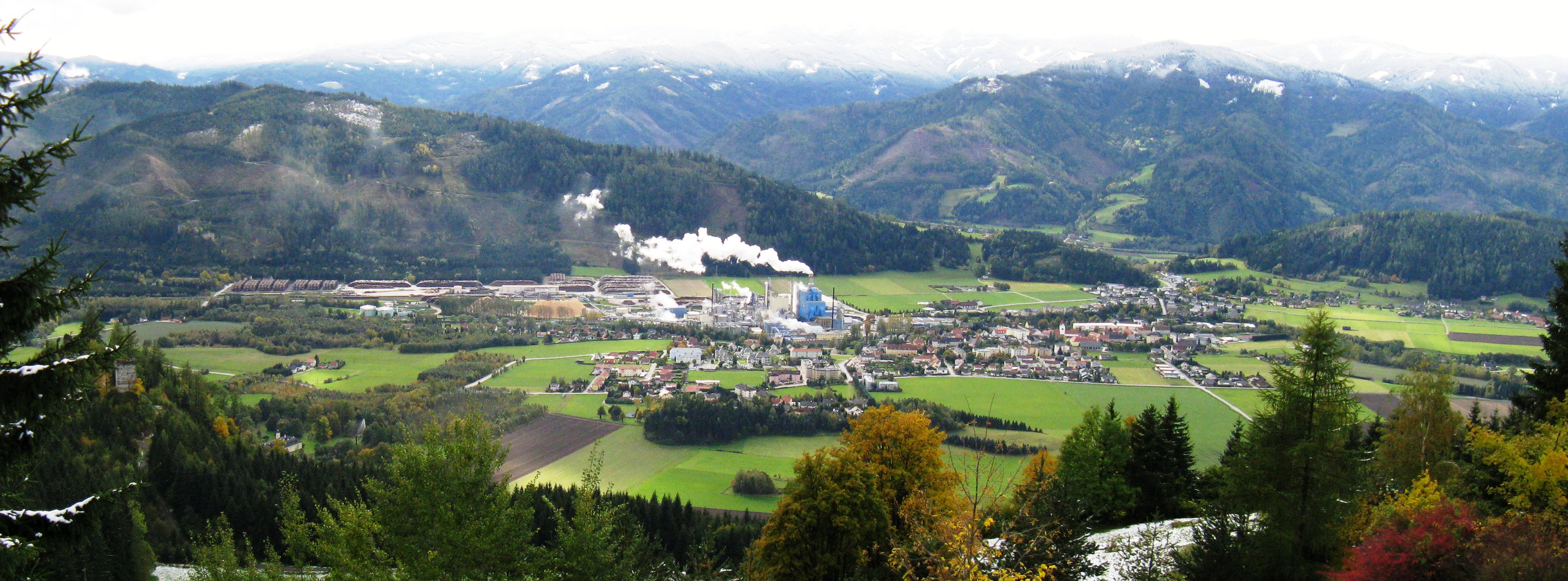 Panorama of Poels, taken from Northeast